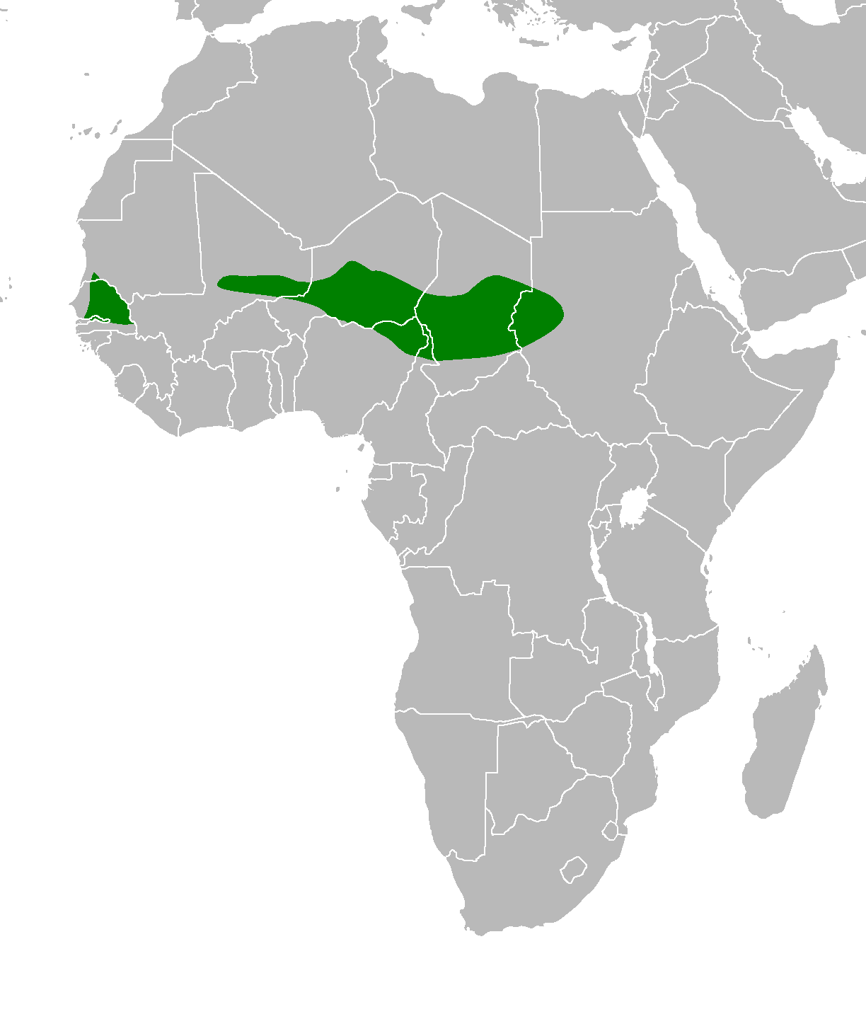 Distribution of the Little Grey Woodpecker (Dendropicos elachus). Based on: C. Hilary Fry, Stuart Keith, Emil K. Urban: The Birds of Africa, Volume III: Parrots to Woodpeckers. Princeton University Press, 1988. ISBN 0121373037, S. 536.